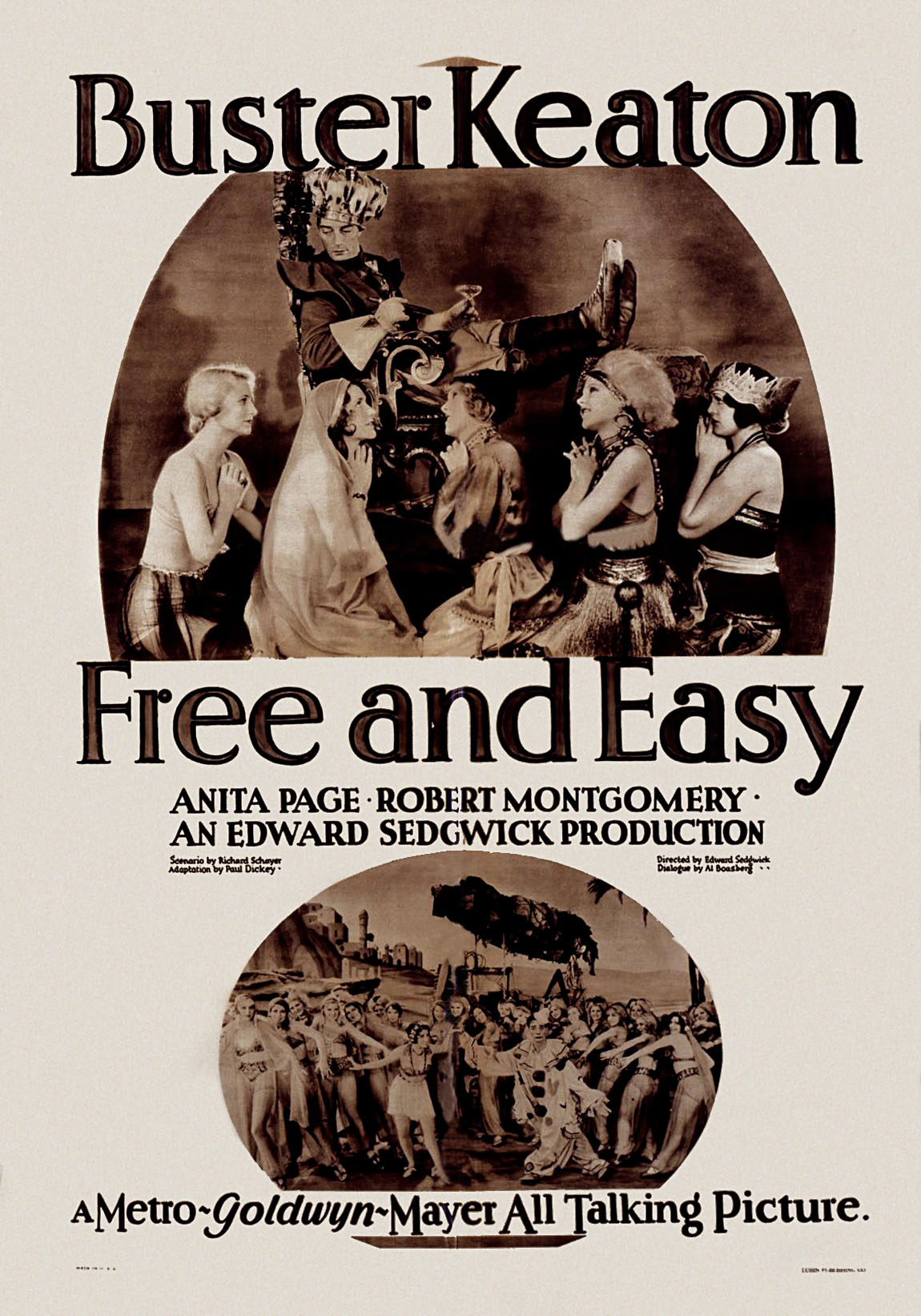 Film ad for the 1930 work Free and Easy